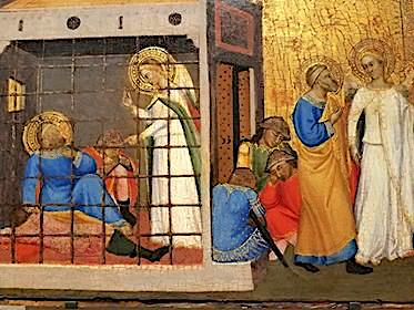 Apostle Peter Released from Prison, Jacopo di Cione, 1370-1371 (Philadelphia Museum of Art), tempera and tooled gold on panel, from a series of panels depicting the life of St. Peter, high altarpiece of the now-destroyed Florentine Church of San Pier Maggiore